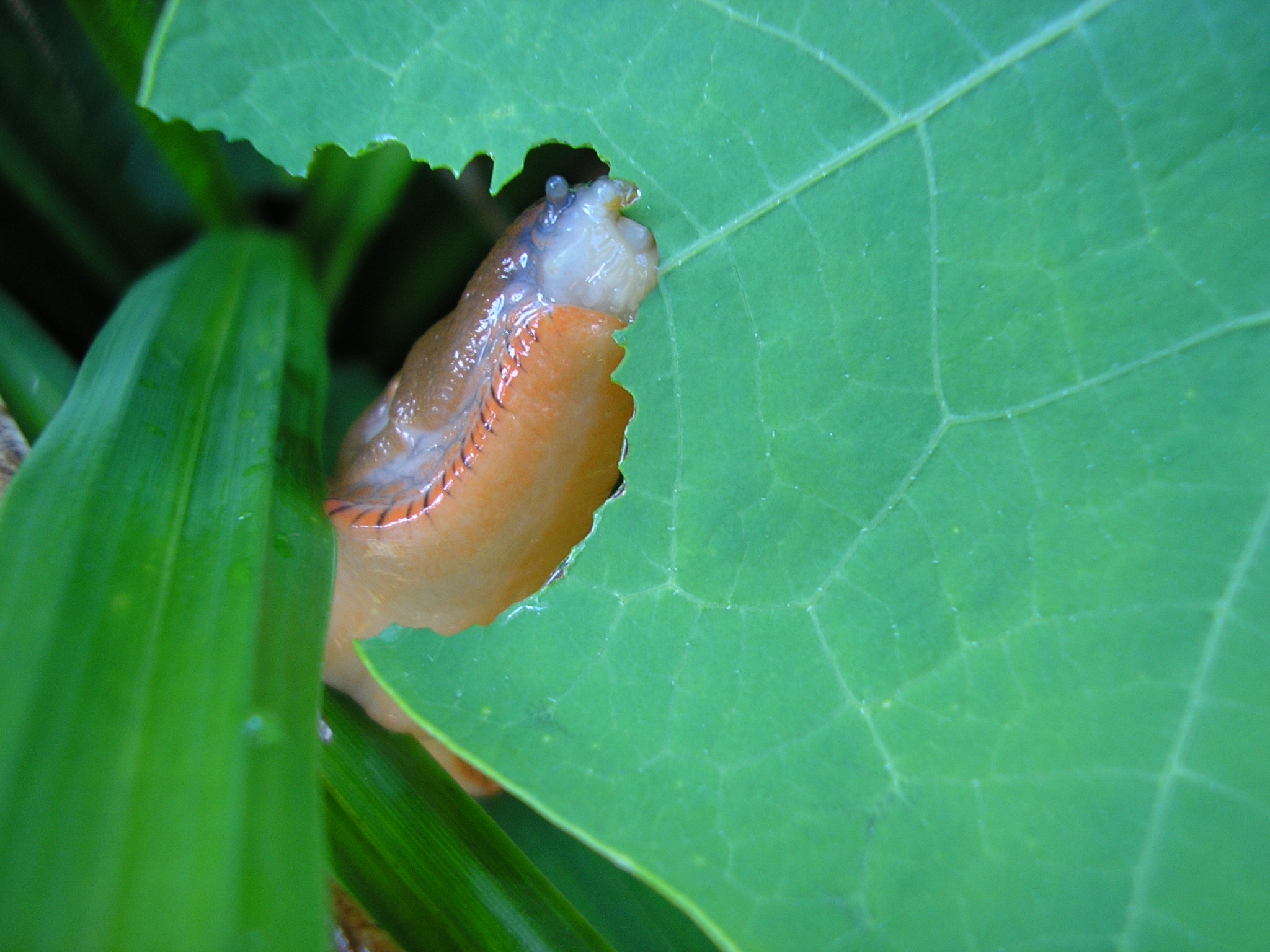 A slug, probably Arion vulgaris, midway through eating a leaf.